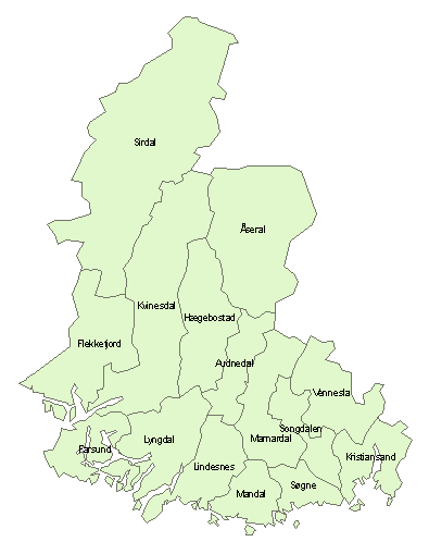 Municipalities of county Vest-Agder, Norway